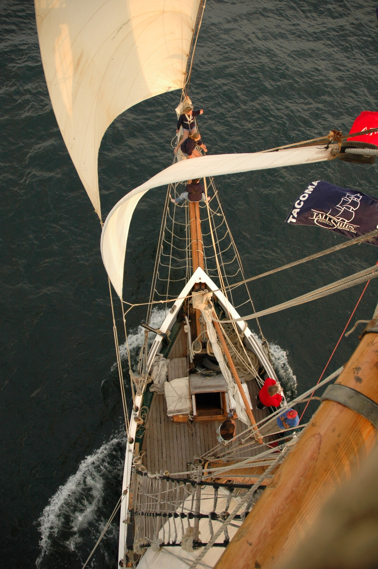 The fore section of the R. Tucker Thompson as seen from the rigging.